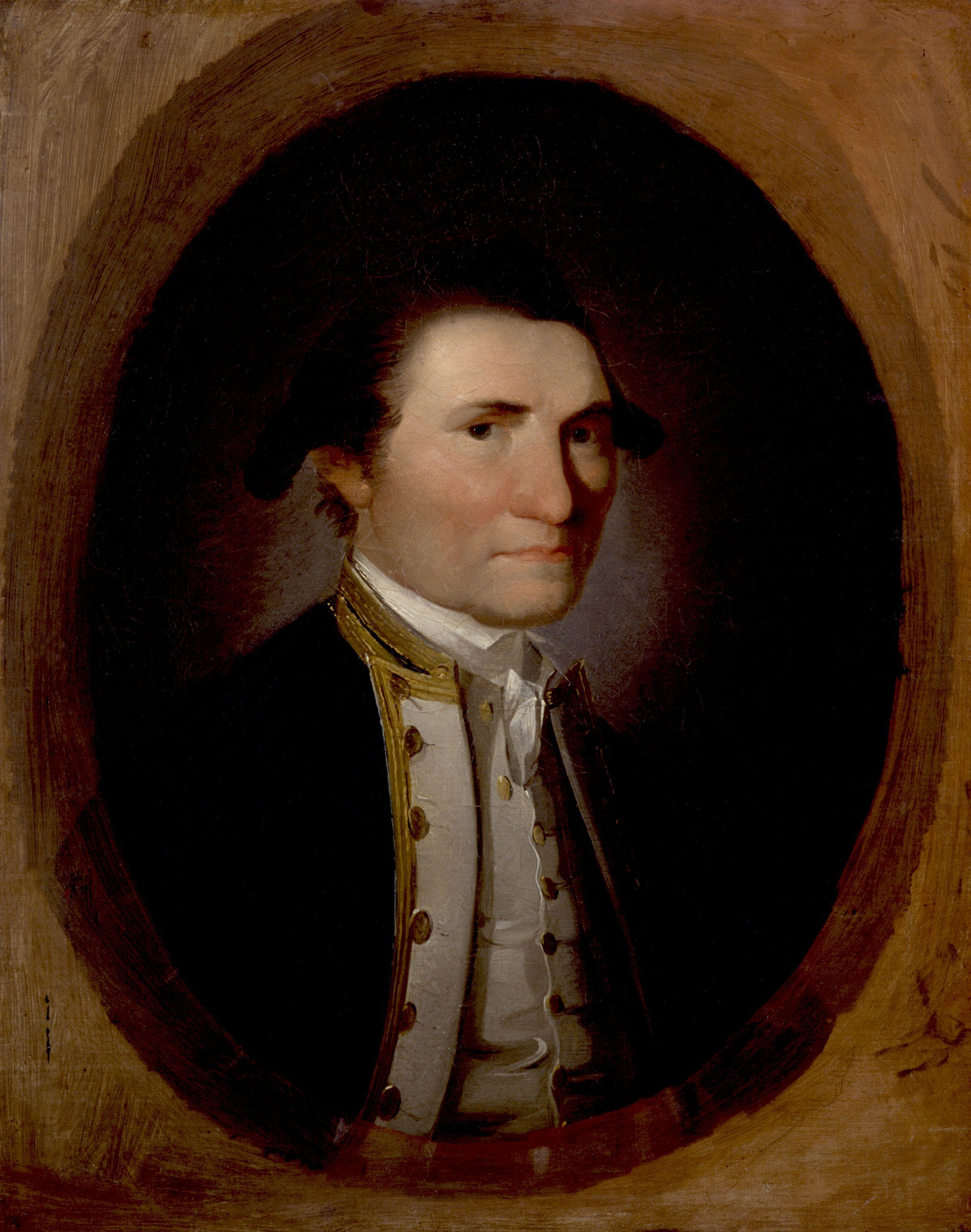 James Cook, by John Webber (died 1793). All images in this batch have been confirmed as author died before 1939 according to the official death date listed by the NPG.